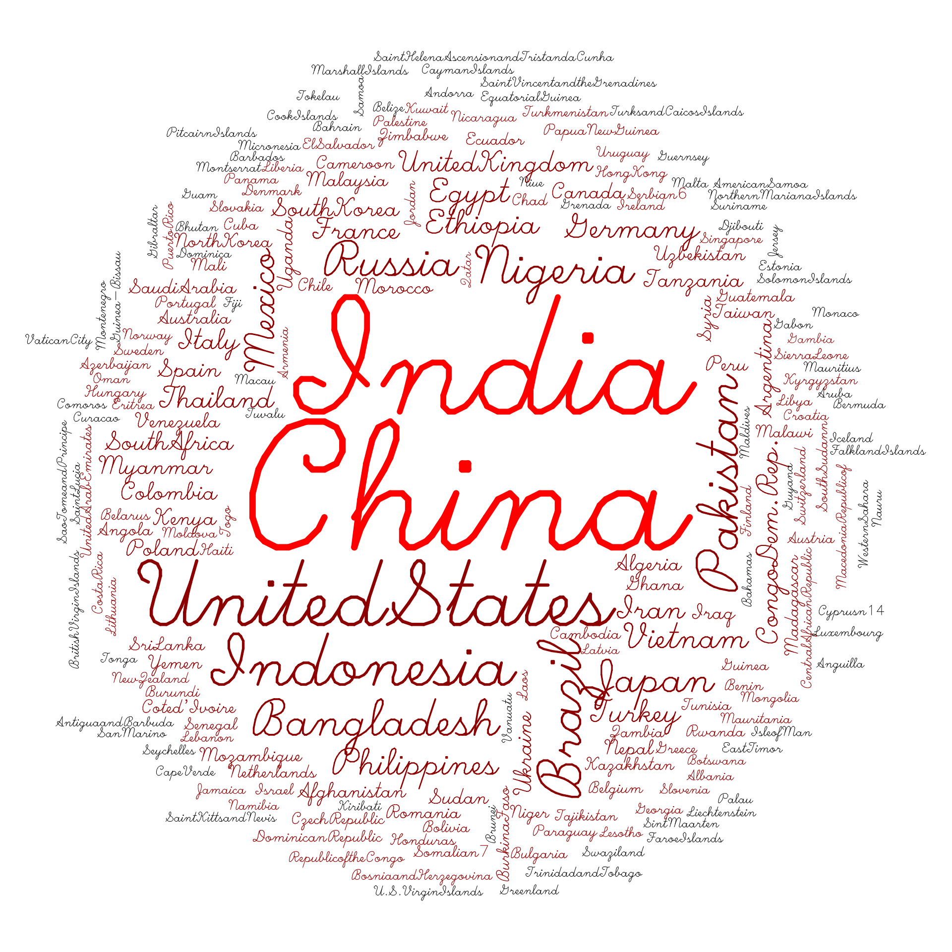 World population tag cloud created in R (programming language) with package wordcloud. Data is from 2010 and/or 2011, taken from list of countries by population. Note that the proportional sizes of China and India were divided in half.